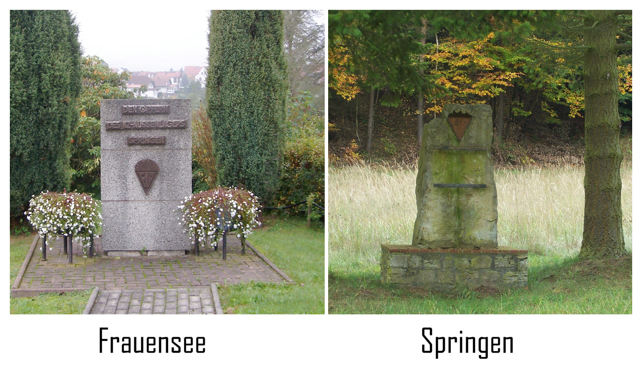 The monuments for the victims of Camp Springen - in Frauensee (left) and in camp Springen (right).